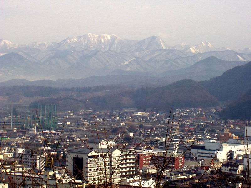 Tendo City, Yamagata prefecture, Japan.